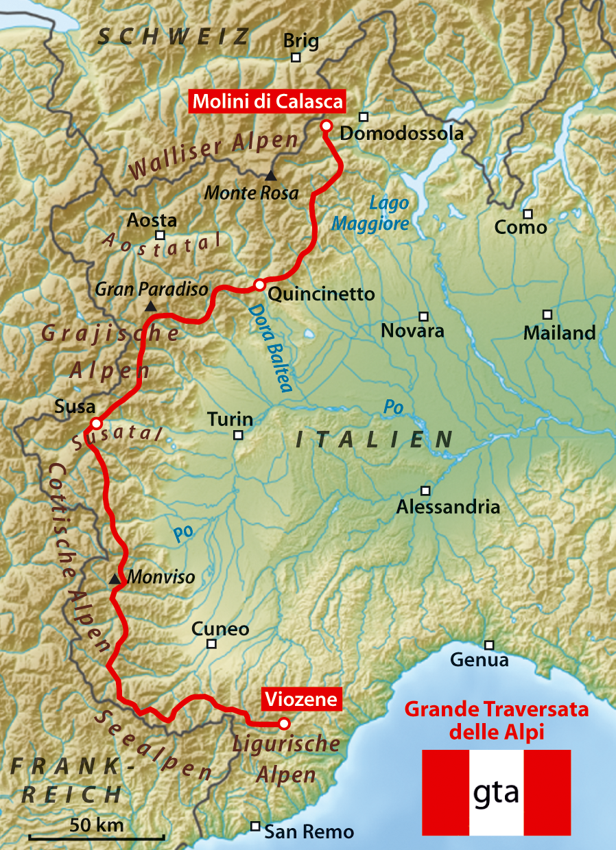 Map of Grande Traversata delle Alpi, Italy, German version